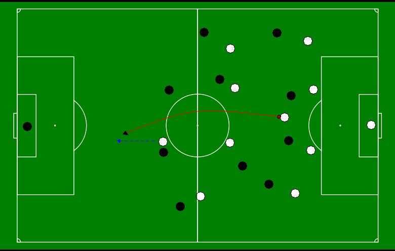 pass in soccer. The long-through ball diagram.